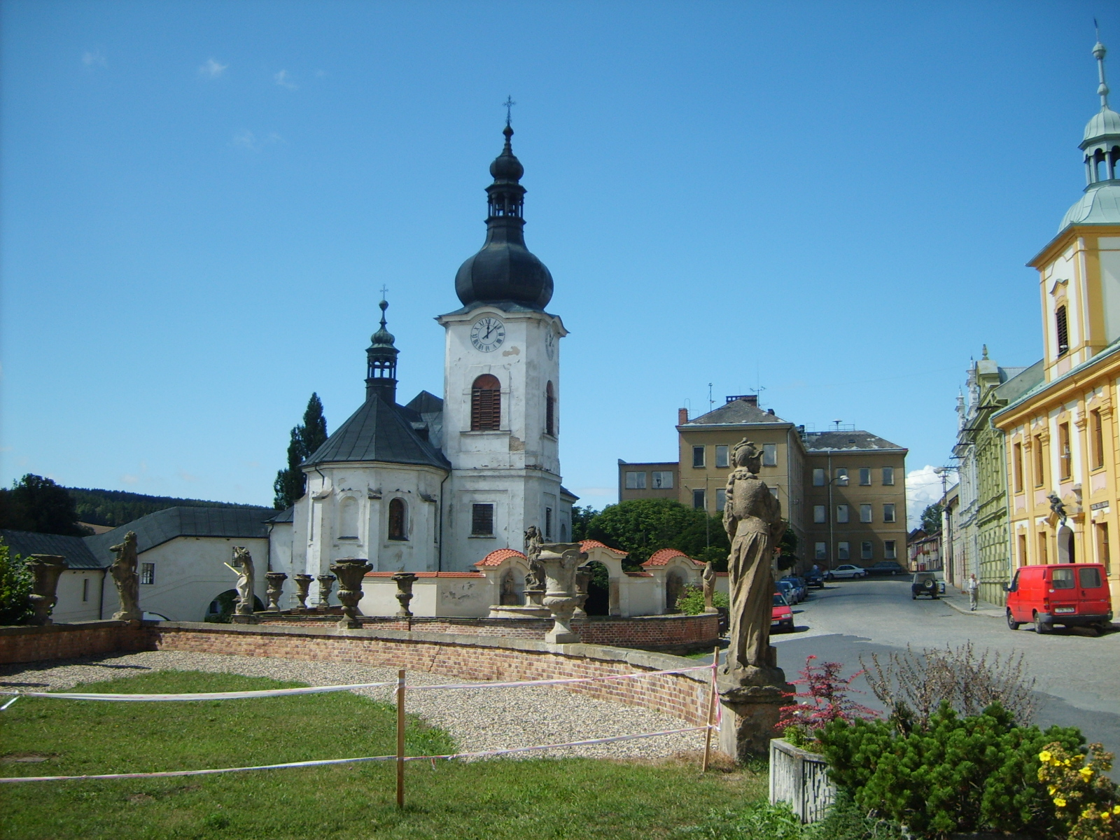 Square of Manětín.